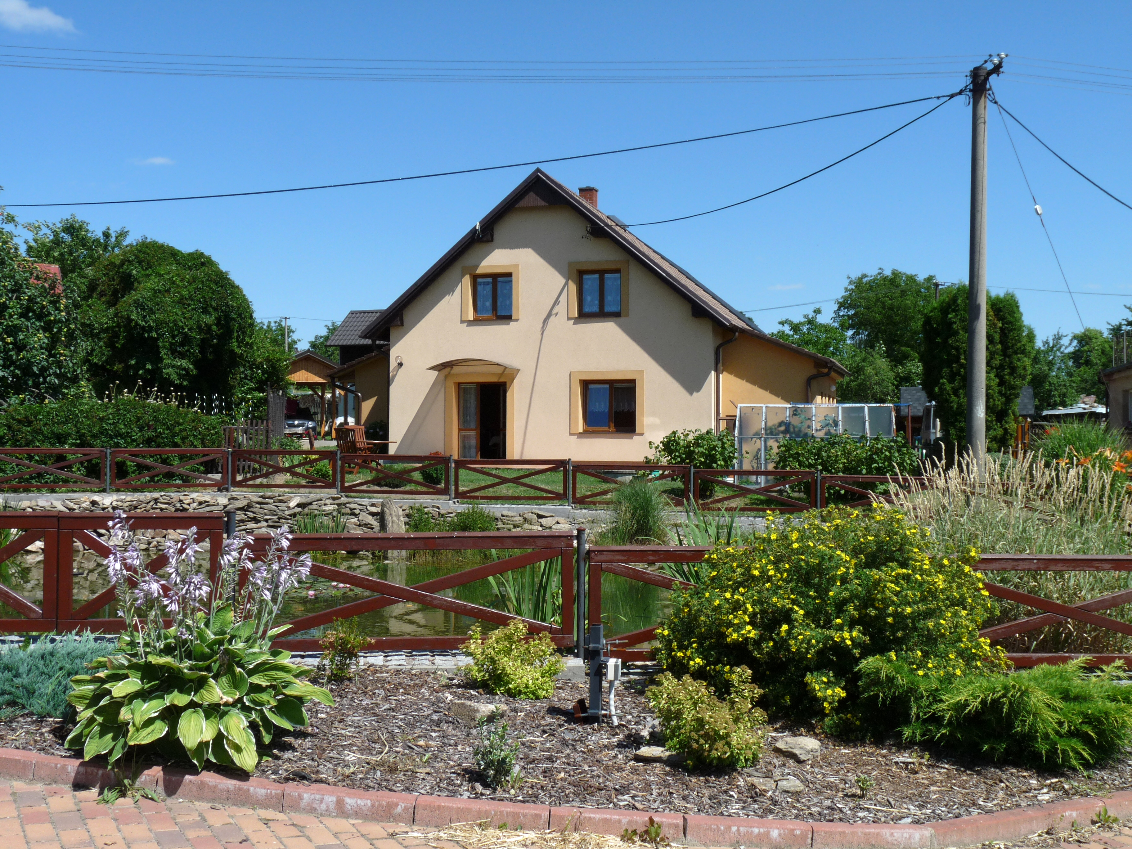 House No 23 in the village of Bělá, Havlíčkův Brod District, Vysočina Region, Czech Republic.